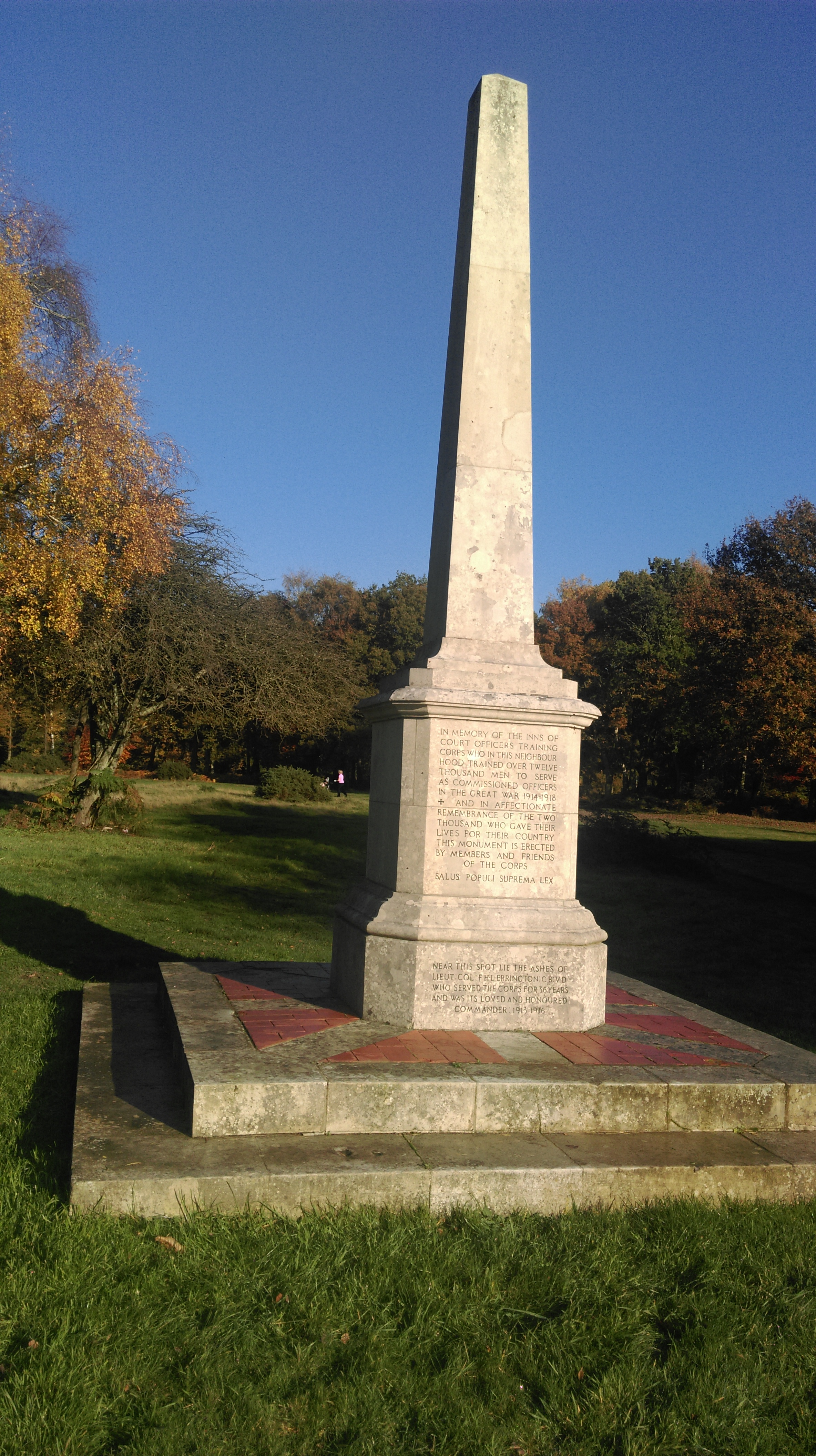 Photo of the Inns of Court War Memorial at Berkhamsted